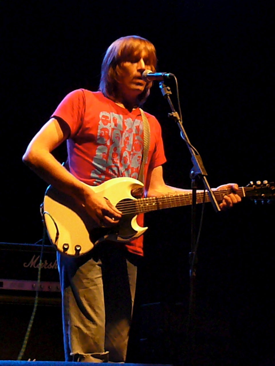 Evan Dando, singer of The Lemonheads